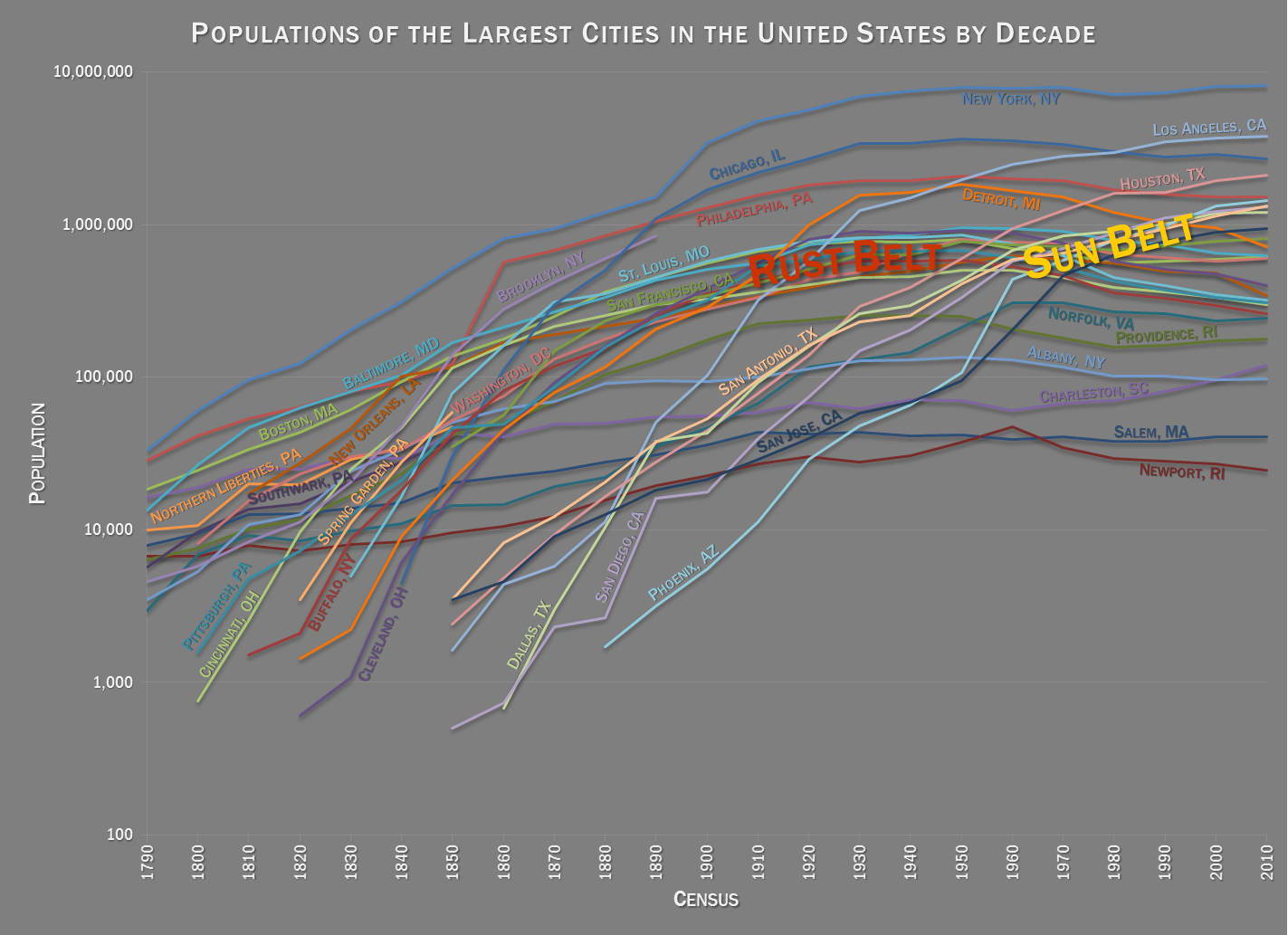 A graph of the populations of all cities that are or have been one of the top 10 largest U.S. cities by decade. Several cities that appear on the list were suburbs of larger cities and were included in metropolitan consolidations in the 19th century: Northern Liberties, Southwark, and Spring Garden became part of Philadelphia in 1854. Brooklyn became part of New York City in 1898. Note that the logarithmic scale means that the observed slope gives the percentage growth, not the absolute growth.